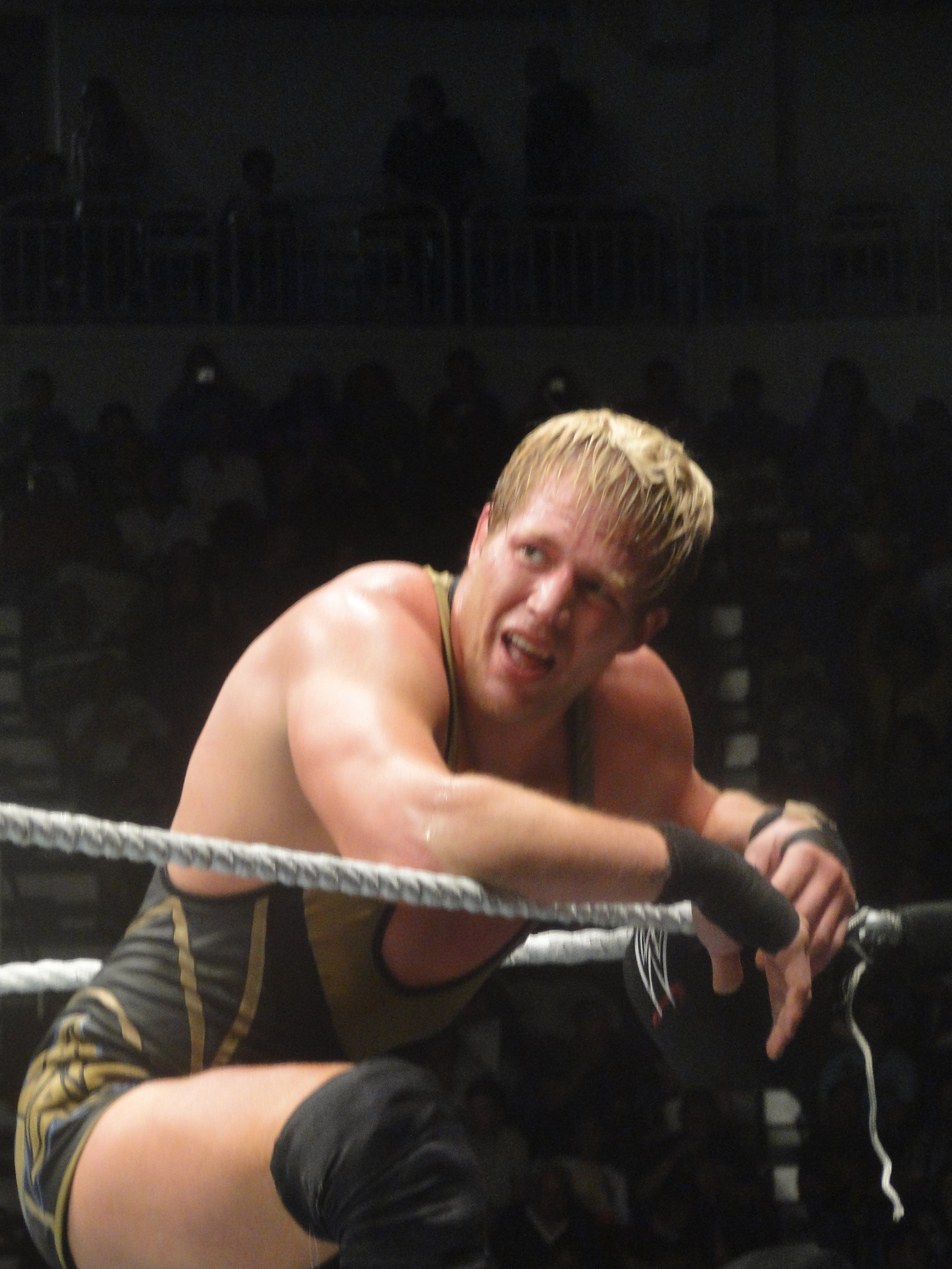 Jack Swagger exhausted during his match with Percy Watson at a WWE live event in Puerto Rico.